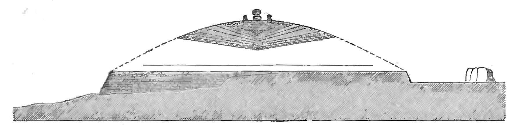 Derivative work of